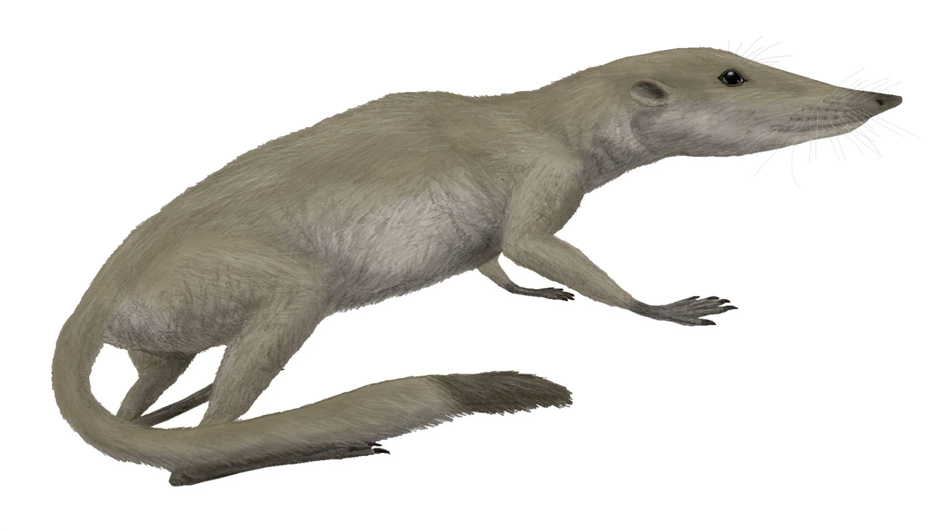 Life restoration of Zalambdalestes lechei.